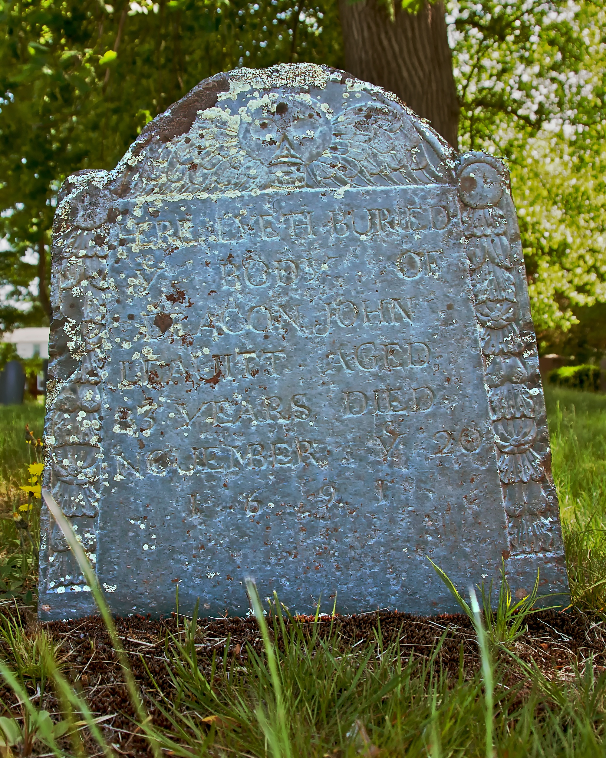 Gravestone of Deacon John Leavitt (1608–1691), Hingham Center Cemetery, Hingham, Massachusetts